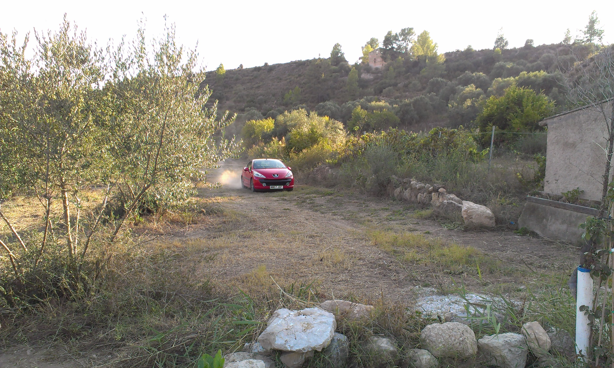 The River Cana is a dry river valley filled with Fincas. The river that once started at Bellaguarda and travelled through the village of Bovera to the Ebre river at Flix in Catalonia. in Spain. It is in the county of les Garrigues in the region of Lleida.